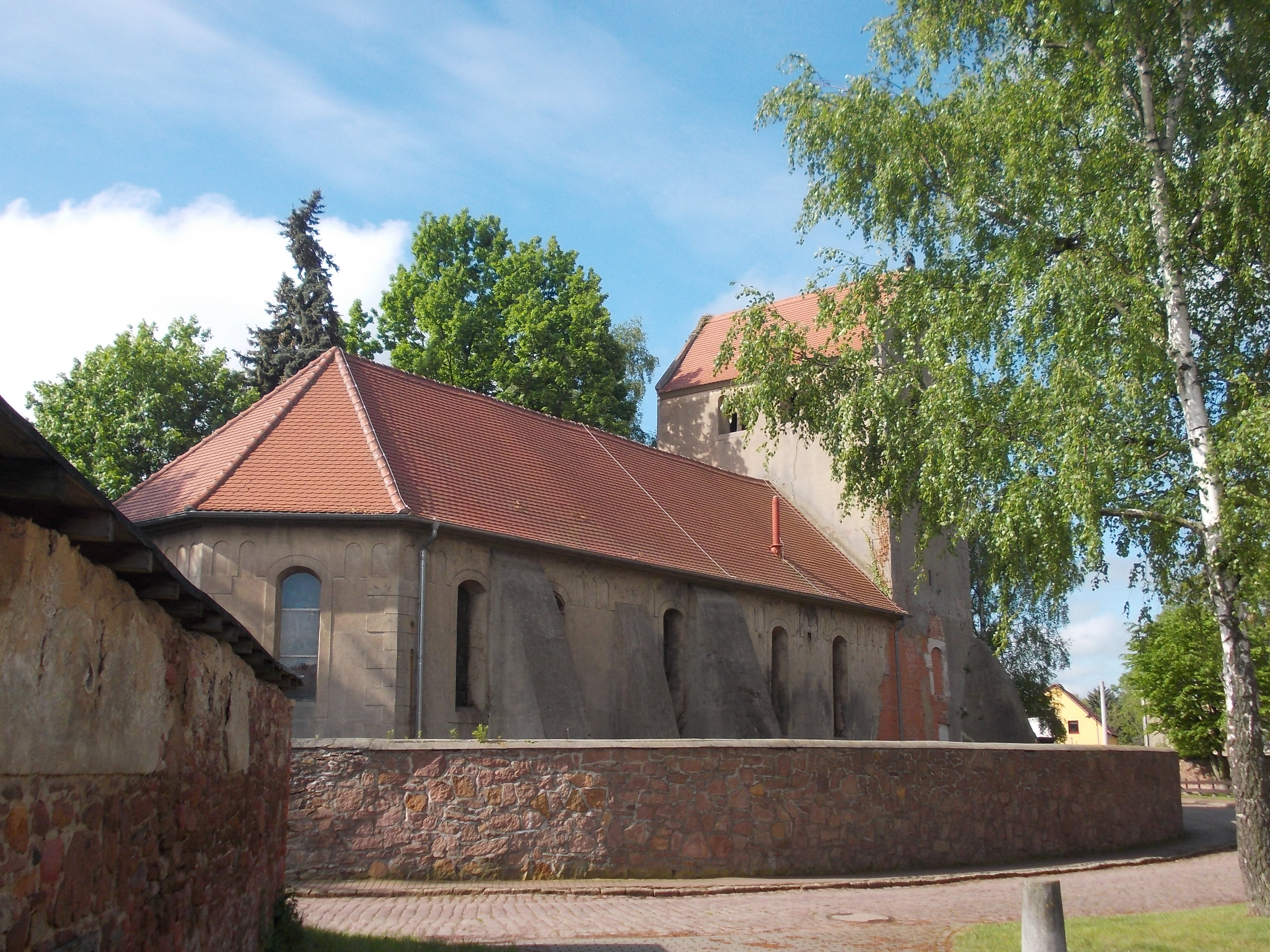 St. John's Church in Domnitz (Wettin-Löbejün, district: Saalekreis, Saxony-Anhalt)